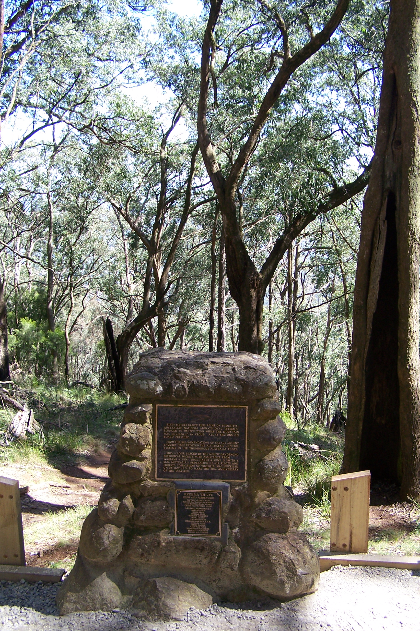 The memorial cairn for the 1938 Kyeema crash on Mount Dandenong, Victoria.